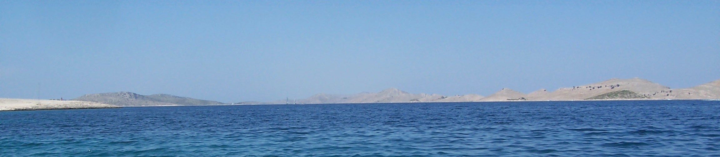 View on the Kornati, Croatia